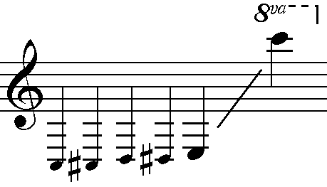 written range of a basset clarinet (and a basset horn), small notes mark off notes not achievable on a soprano clarinet